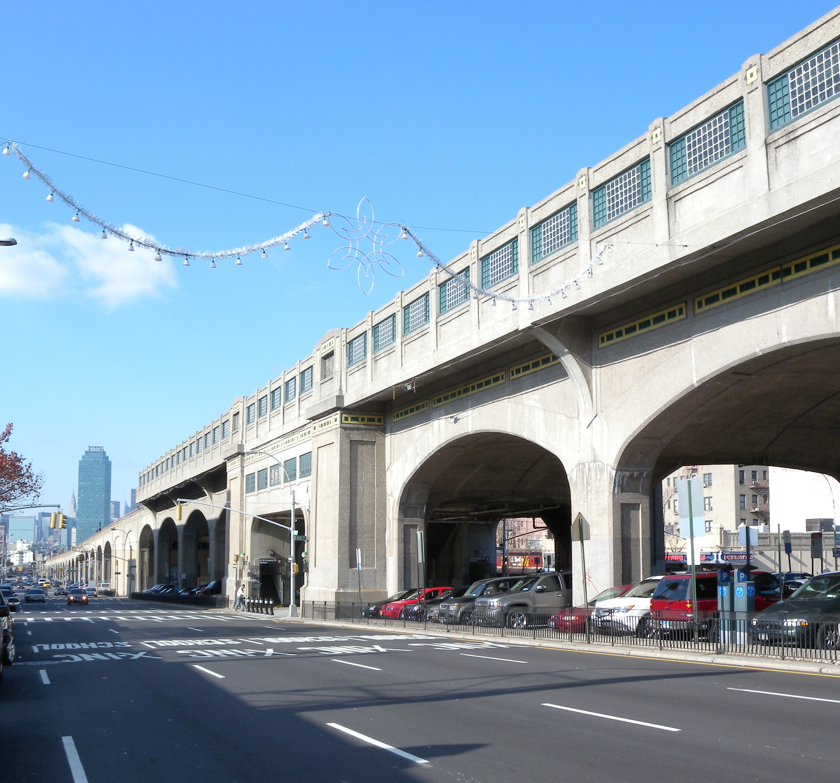 Looking northwest at en:40th Street – Lowery Street (IRT Flushing Line) on a sunny midday.